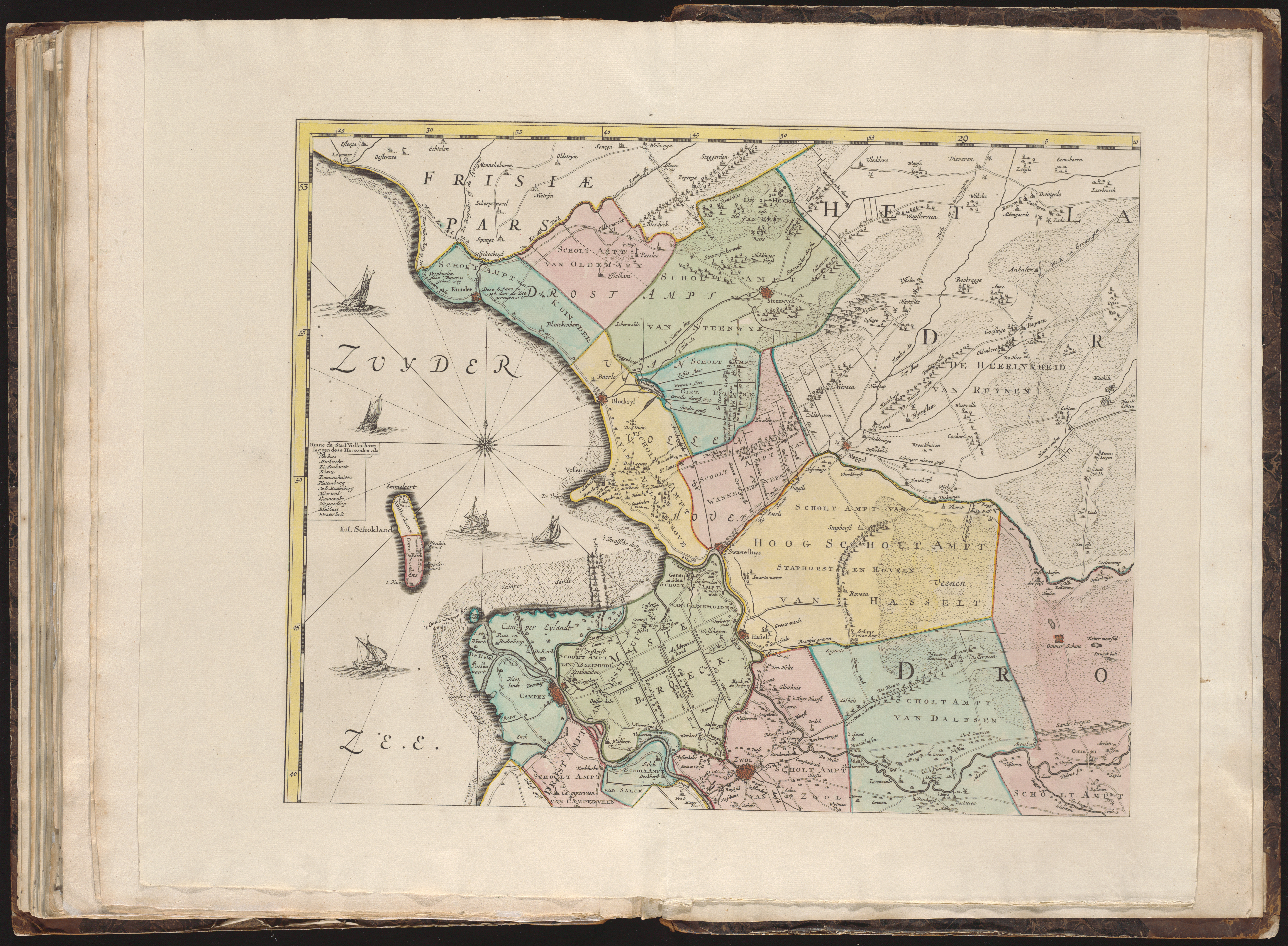 Scale [c. 1:100.000]. 4-sheet map.